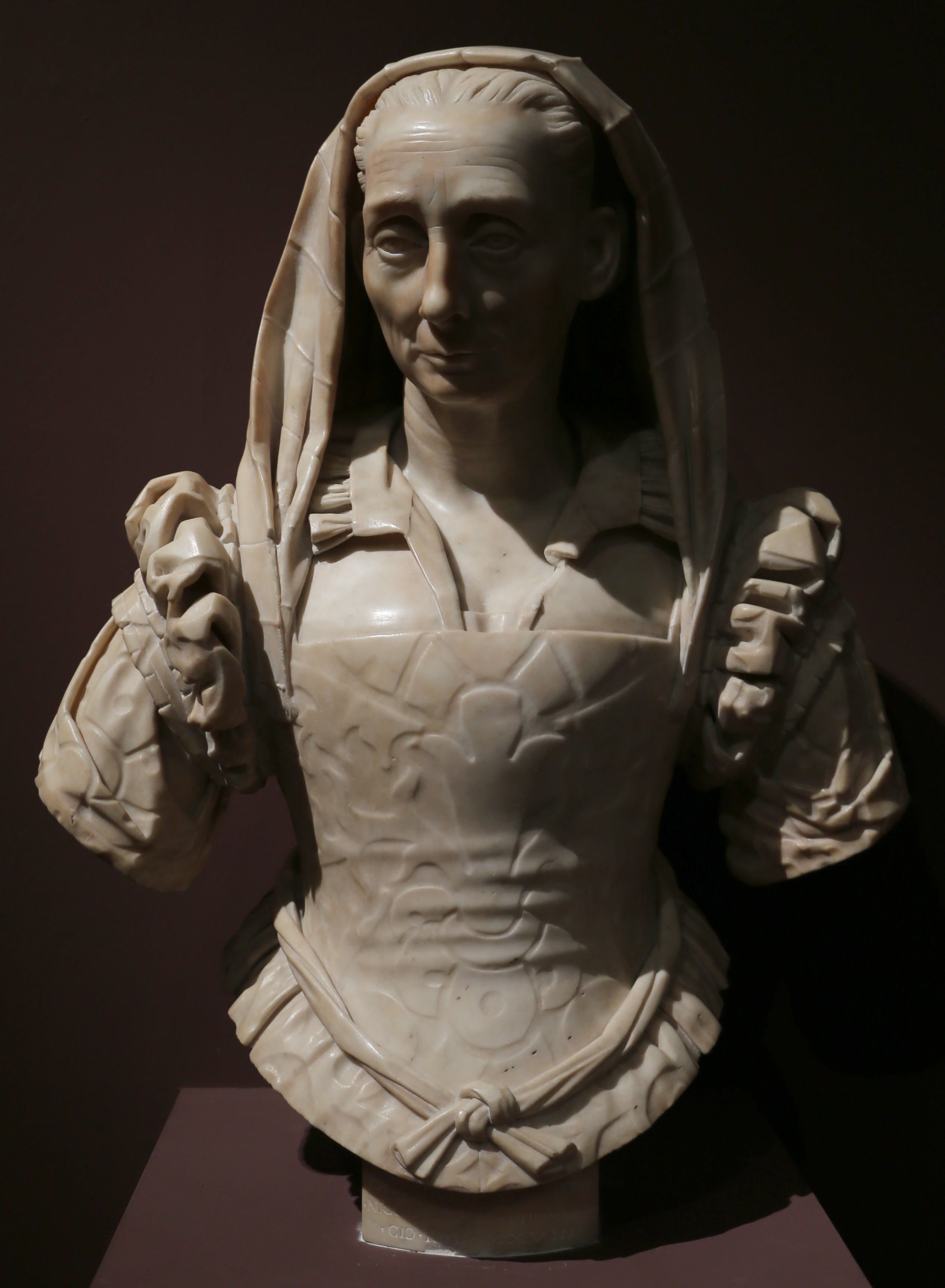 Il Cinquecento a Firenze (2017 exhibition)